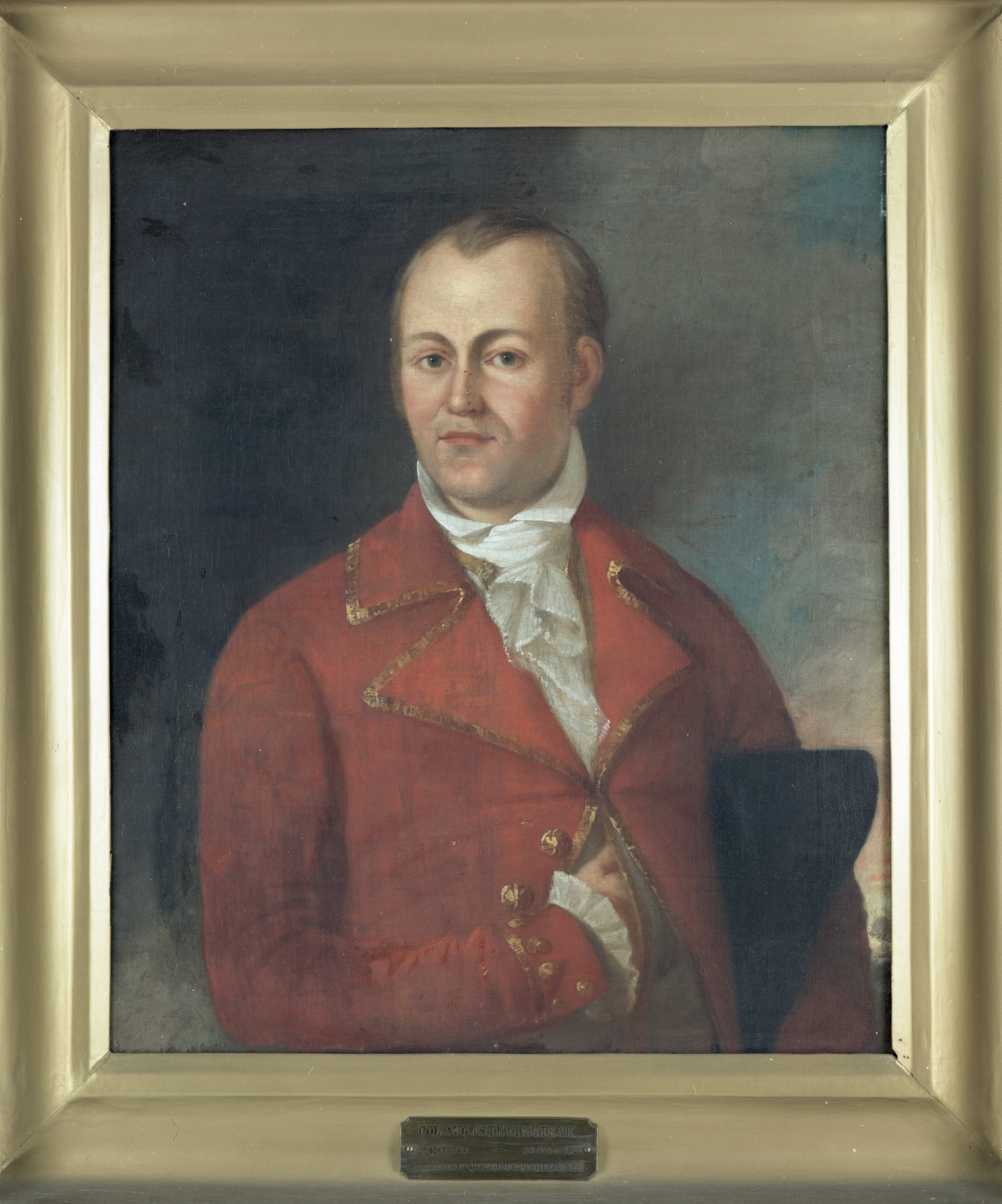 Portrait of Auguste Chouteau, one of the founders of St. Louis. The portrait is a copy taken from a miniature in a private collection that was painted in the late 1700s by an unidentified artist. Title: Portrait of Auguste Chouteau